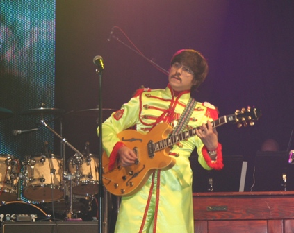 Dalibor Stroncer aka John Lennon in Sgt. Pepper era perfomring during the Backwards concert